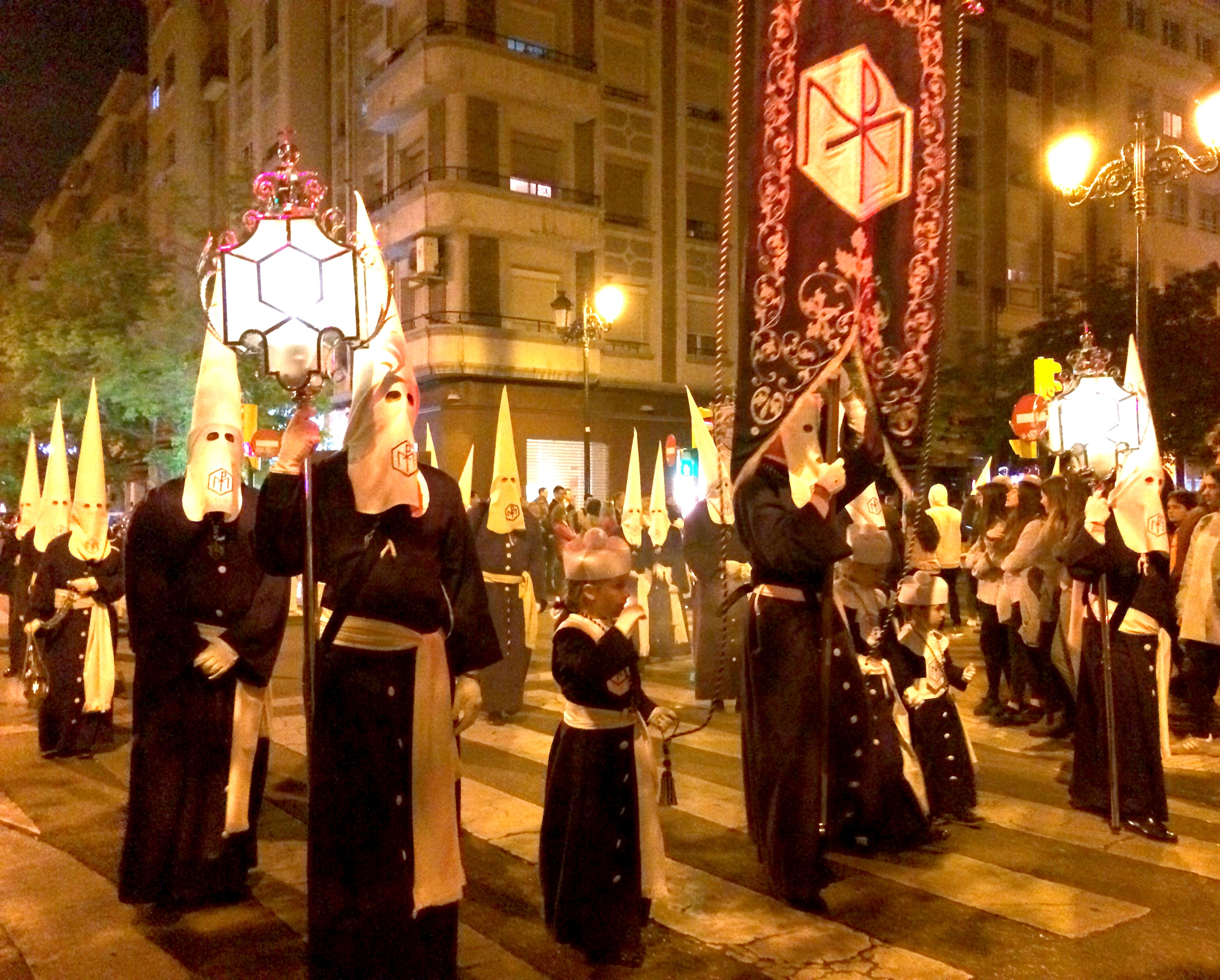 Holly Week procession in 2017 in Zaragoza (Spain)